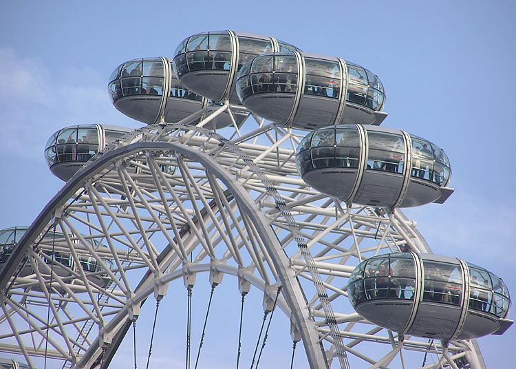 Capsules at the top of the wheel. Taken by Adrian Pingstone in November 2004 and released to the public domain.